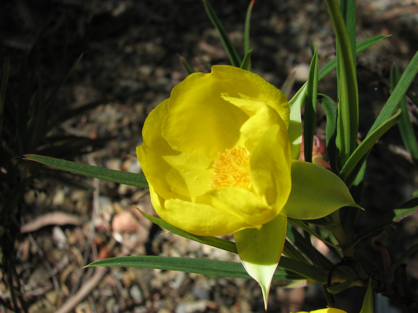 Hibbertia longifolia (cultivated, labelled), Maranoa Gardens, Balwyn, Victoria, Australia